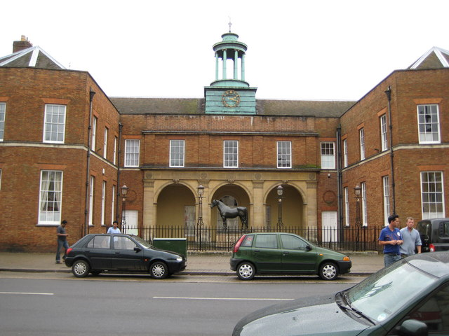 Newmarket: The Jockey Club This is the front façade of the Jockey Club building on Newmarket High Street. Outside is a sculpture of Hyperion the renowned horse that won the Derby in 1933. Contrary to some public misconceptions the Jockey Club is not a club for horse-racing jockeys. It was founded in 1752 as a private members' club and many of its members have been and are prominent racehorse owners. Through the patronage of these members it became the main governing body in horseracing, concerning itself, amongst other matters, with rules of conduct, the licensing of racecourses, jockeys and trainers, and the health and safety of riders and horses. However in 2006, during a major reorganization of the horseracing industry, it vouluntarily passed some of these regulatory responsibilities to the new Horseracing Regulatory Authority. In 2007 the latter body itself ceased to exist and all regulatory matters passed to the British Horseracing Authority. Since 2006 the Jockey Club has concentrated on the commercial aspects of running its racecourses.